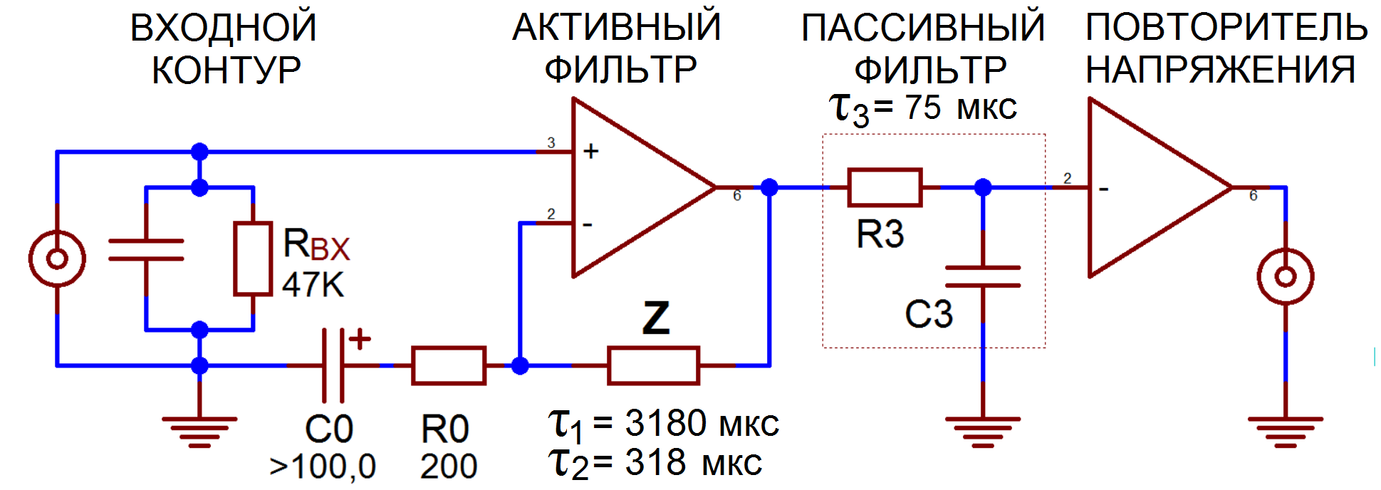 The most common active+passive RIAA phono stage topology